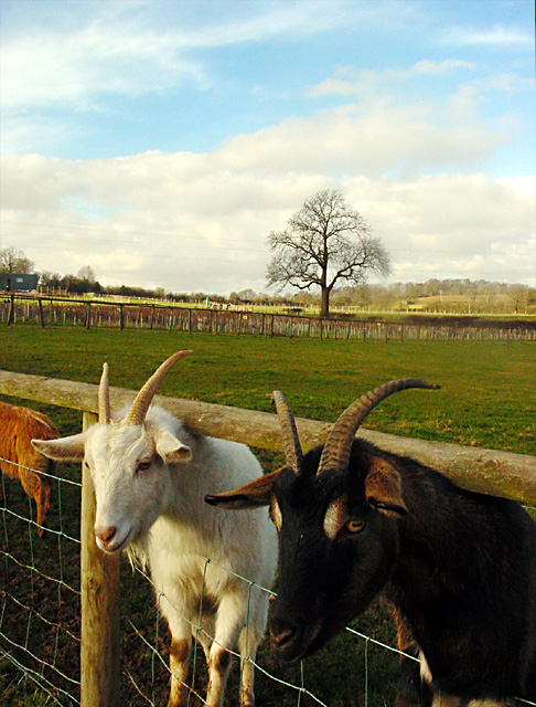 Goats at Noah's Ark Zoo Farm, maze in background